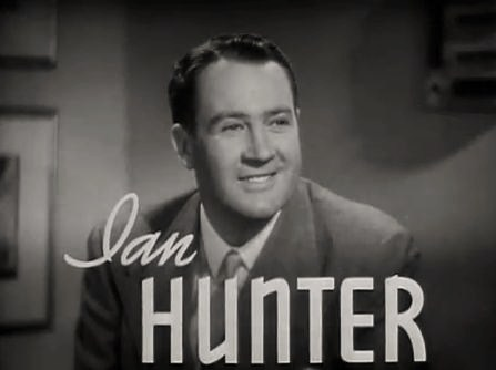 Ian Hunter in Broadway Serenade - trailer (cropped screenshot)